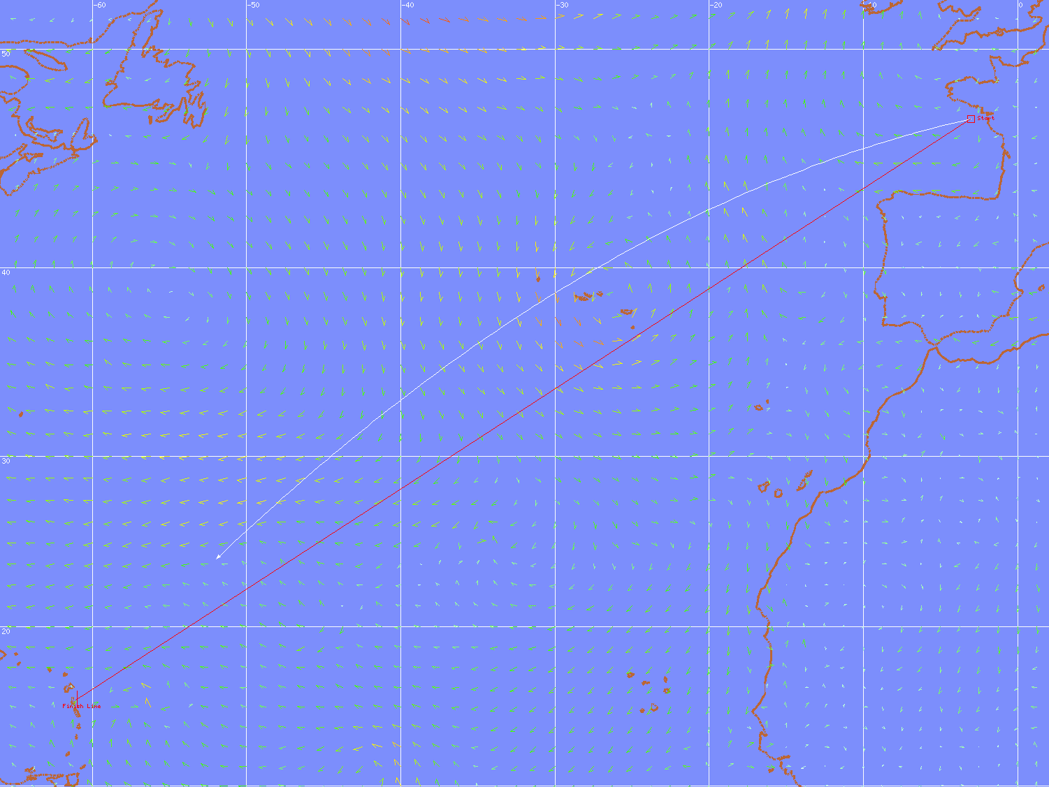 A simple map of the North Atlantic comparing loxodromic (red) and orthodromic (white) route on a cruise between Brittany and Antilles. Map has been made with the software I wrote : "virtual loup-de-mer"